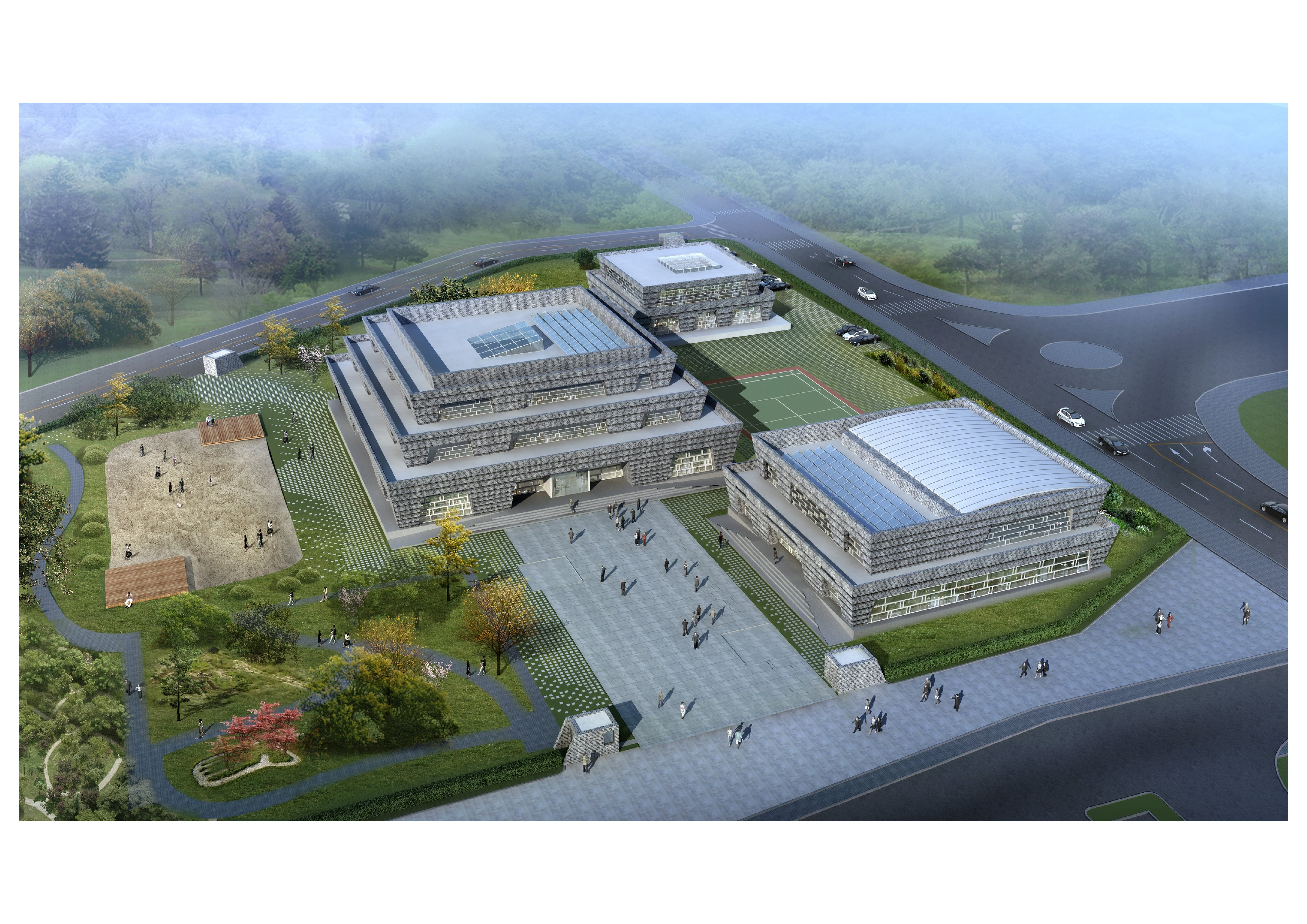 국립중원문화재연구소